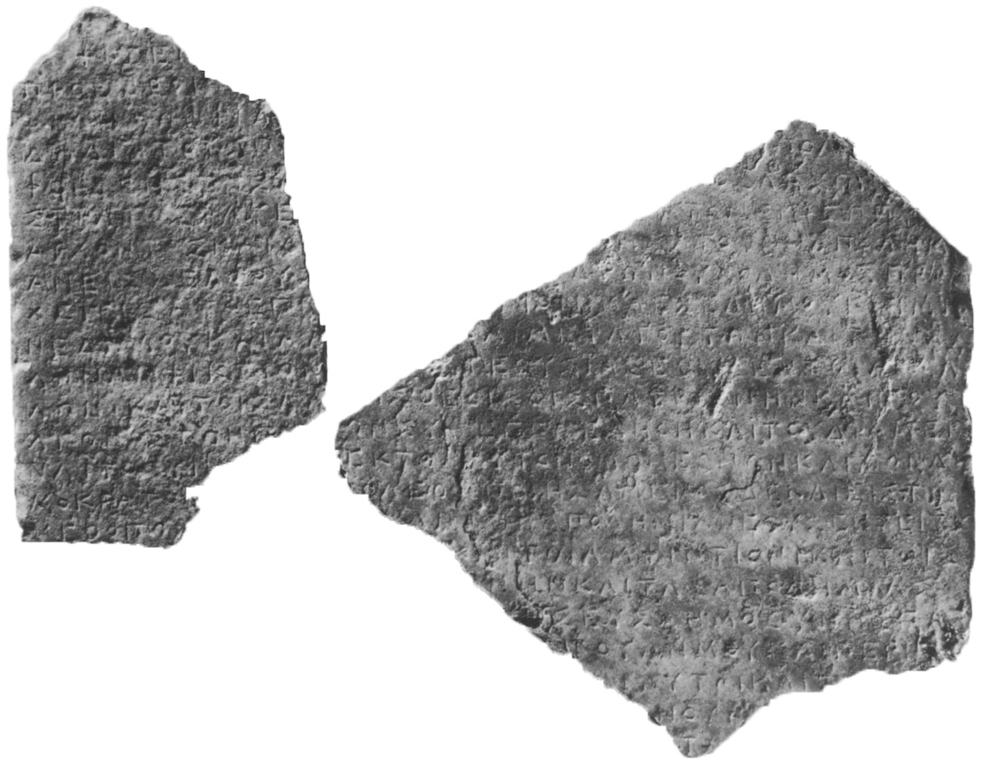 Fragmentary marble inscription from the Agora, dating from 185 \ 184 BC, found in 1970 in Athens. Text relates to the reorganization of the Delphic Amphictyonic League. Among others who played a role, names Echedemos, son of Mnesitheos (who is also mentioned as an Athenian ambassador by historians Polybius and Livy). Photo, with full transcript and commentary, is published by Christian Habicht (1987) "The Role of Athens in the Reorganization of the Delphic Amphictiony after 189 BC", Hesperia, 56 (1): 59–71. Kept in the Epigraphical Museum in Athens, fragments Agora I 7197 (31 x 15.5 x 12 cm) and Agora I 7199 (30 x 29.5 x 7 cm). Another small part of this inscription is also in the Epigraphical Museum, fragment IG II² 898 (7.8 x 13 x 11 cm).